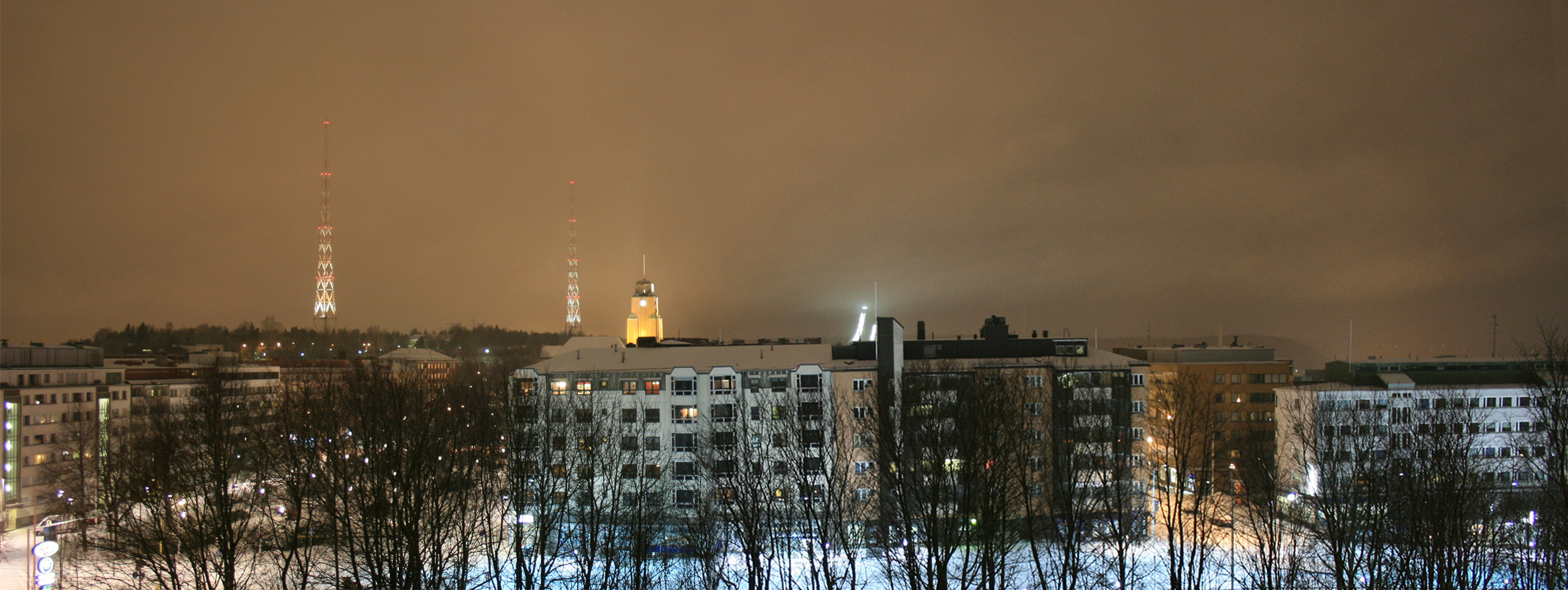 Center of Lahti at winter by night.